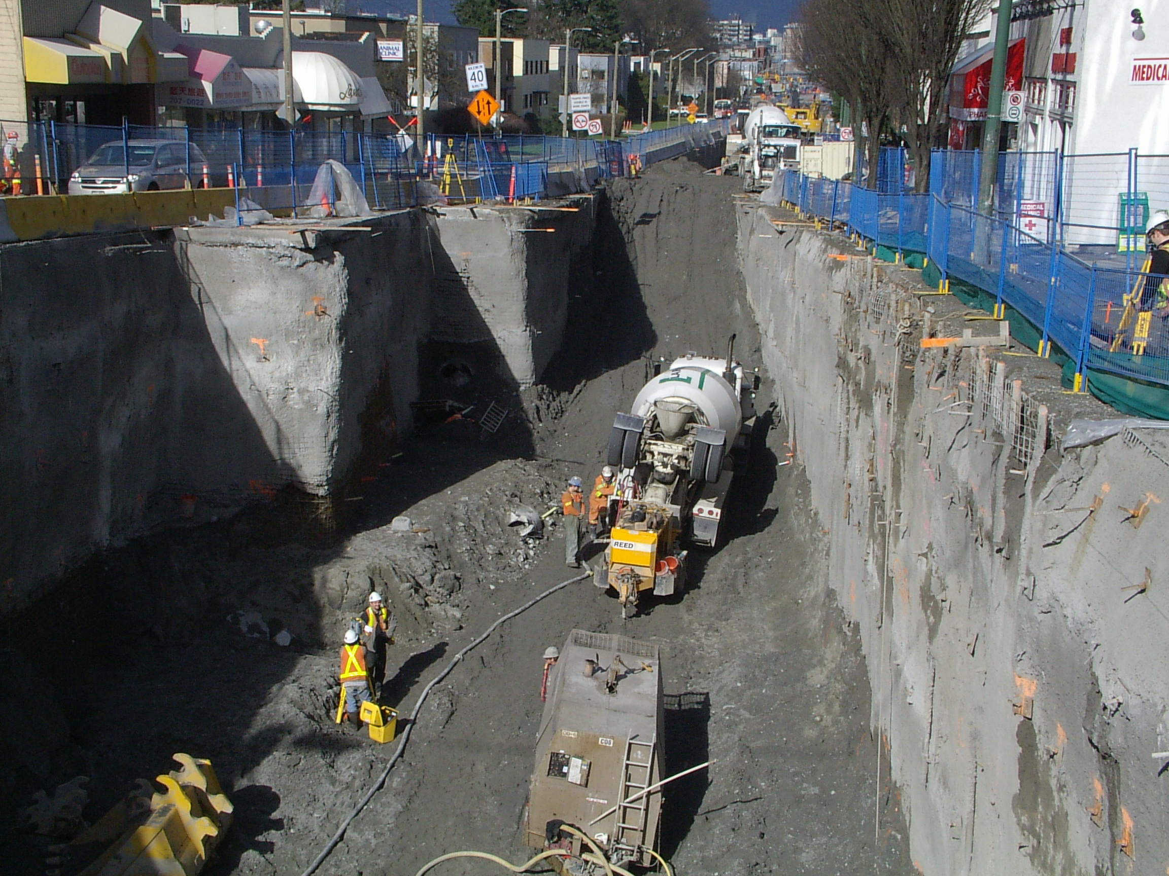 Cut and cover construction on Cambie Street in Vancouver just north of 25th Avenue.